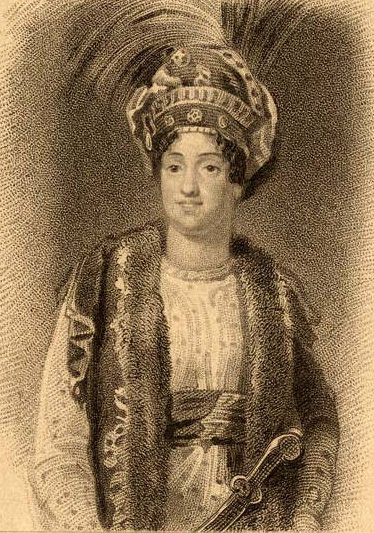 Lucia Elizabeth Vestris (1797 – 1856) as Artaxerxes in Artaxerxes